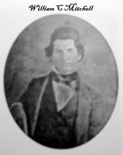 State Senator and Colonel of the 14th Arkansas Infantry Regiment, William C. Mitchell.